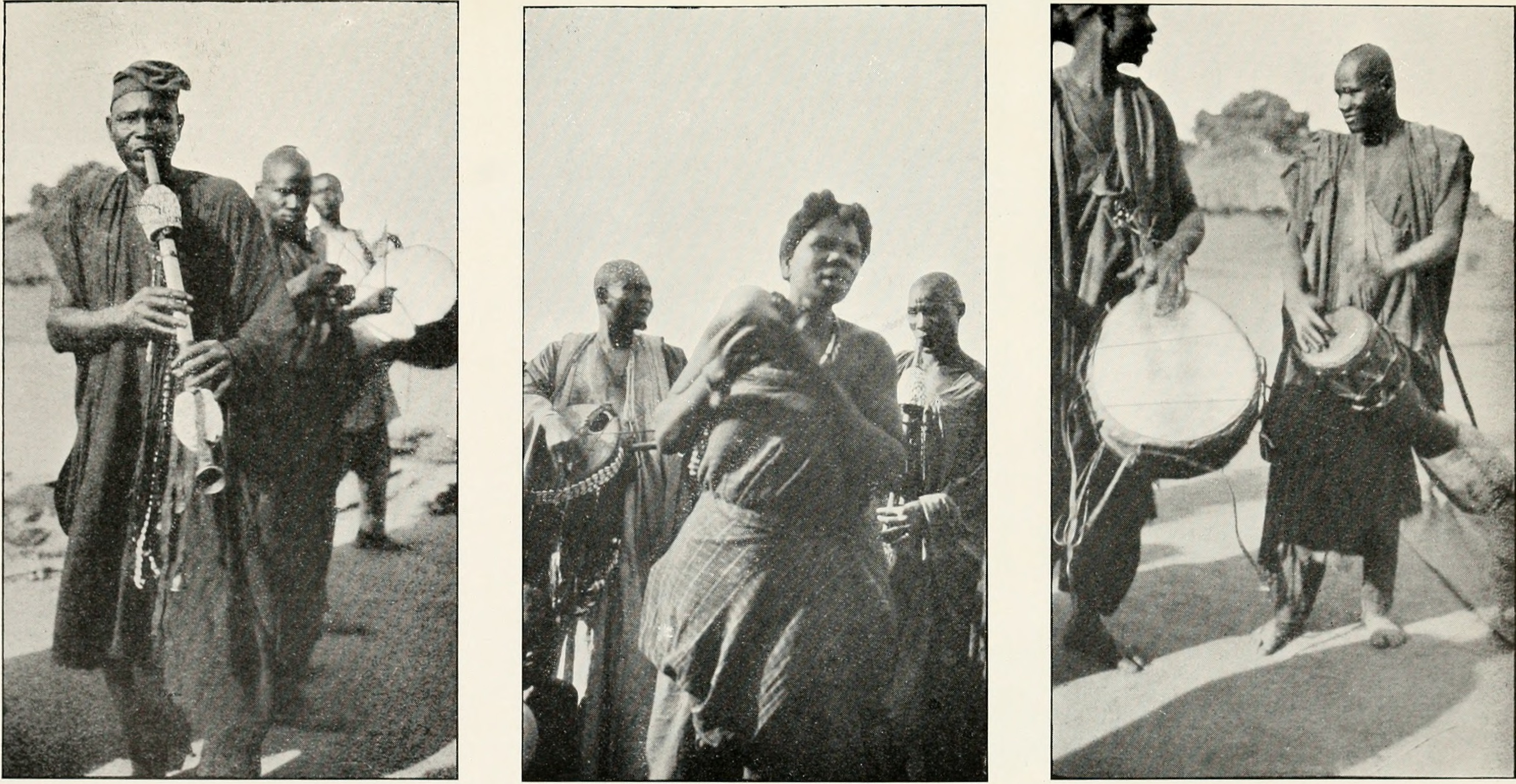 Title: Chiefs and cities of Central Africa, across Lake Chad by way of British, French, and German territories Year: 1912 (1910s) Authors: Macleod, Olive Subjects: Natural history -- Africa; Africa, Central -- Description and travel; Africa, West -- Description and travel Publisher: Edinburgh, London : W. Blackwood and sons Text Appearing Before Image: ' Text Appearing After Image: '